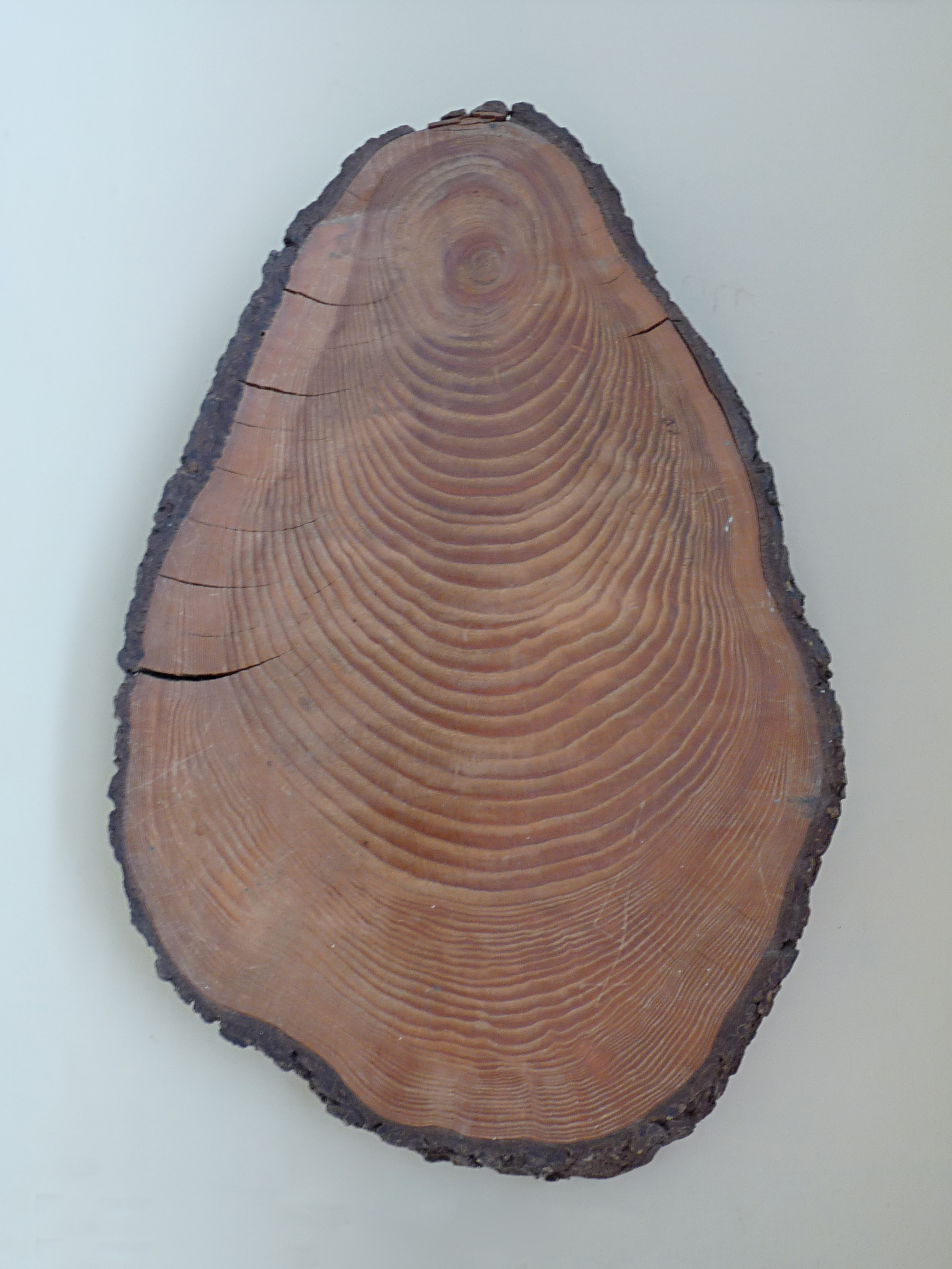 Cross section of a tree at Hunting Lodge Ohrada near Hluboká nad Vltavou, Czech Republic. Slanted tree trunks or those stressed in one direction grow faster at the lower or leeward side.